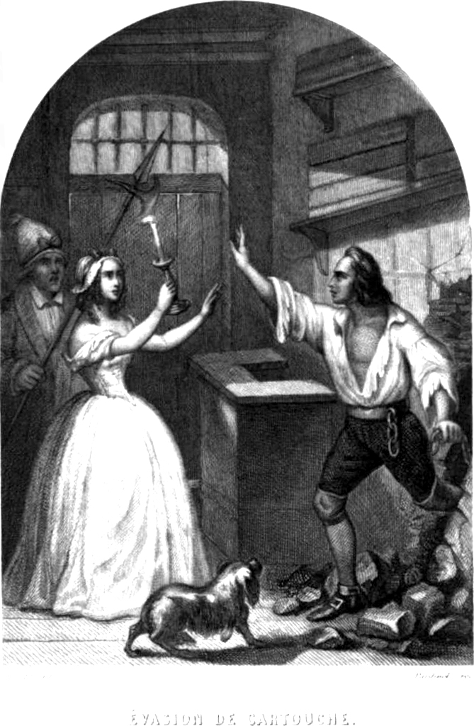 Highwayman Cartouche's Prison Break